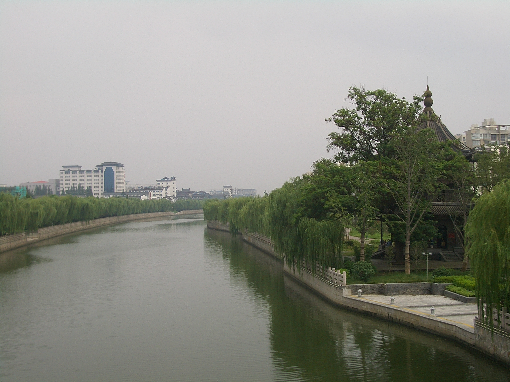 The old channel of the Grand Canal of China, just east of the historical center of Yangzhou.